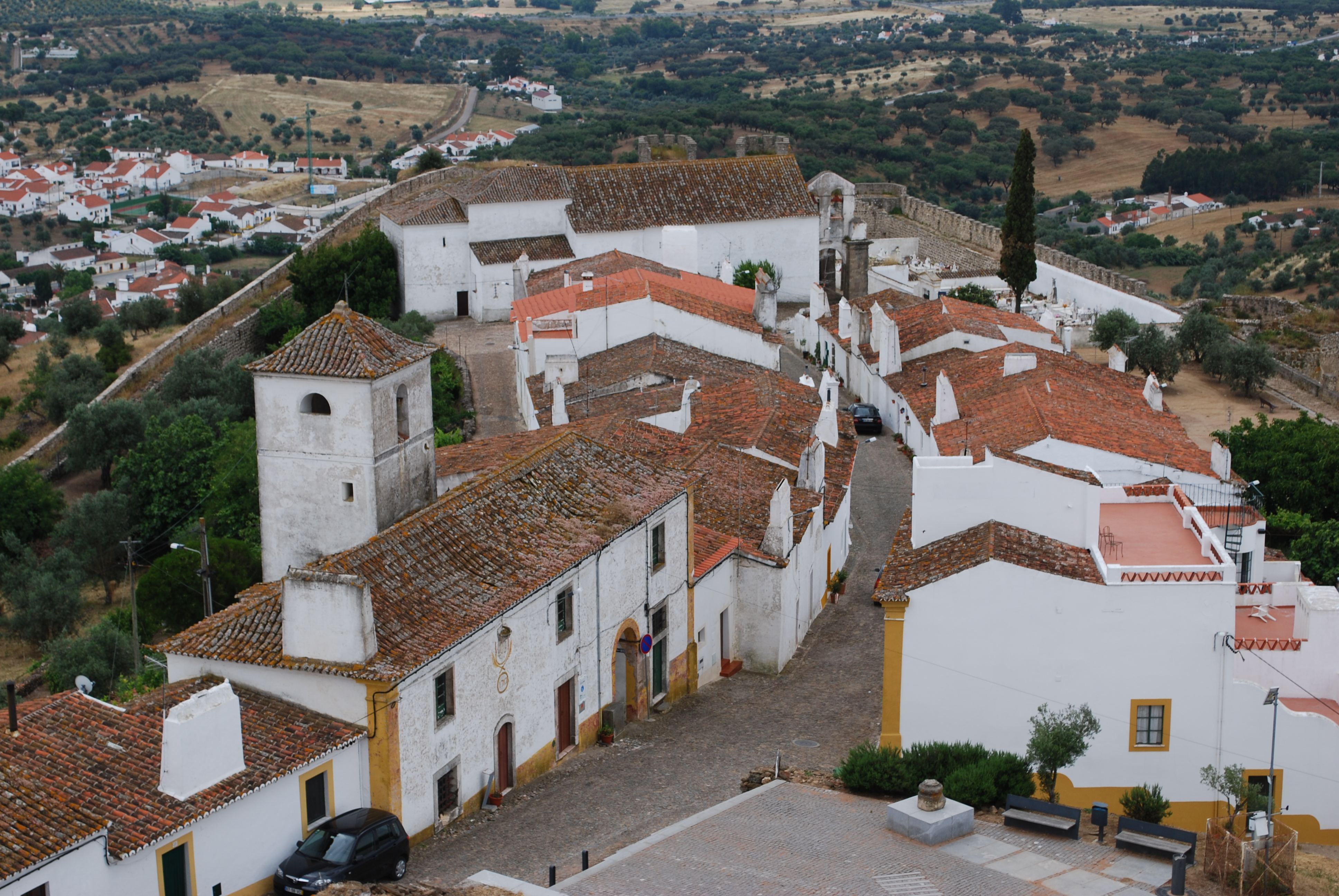 This file was uploaded for Wiki Loves Monuments in Portugal with the unique identifier 70670.